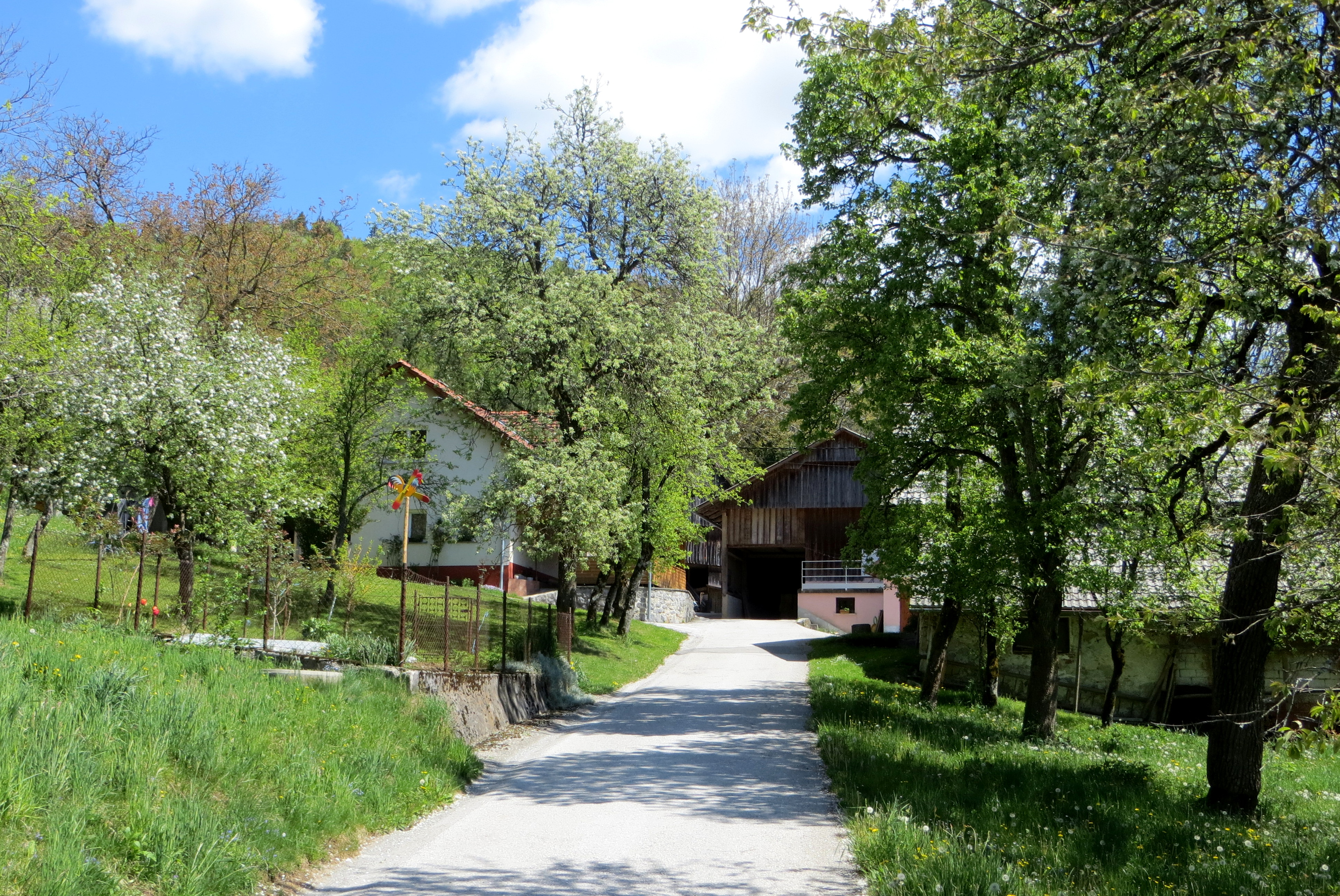 Pirmane, Municipality of Cerknica, Slovenia